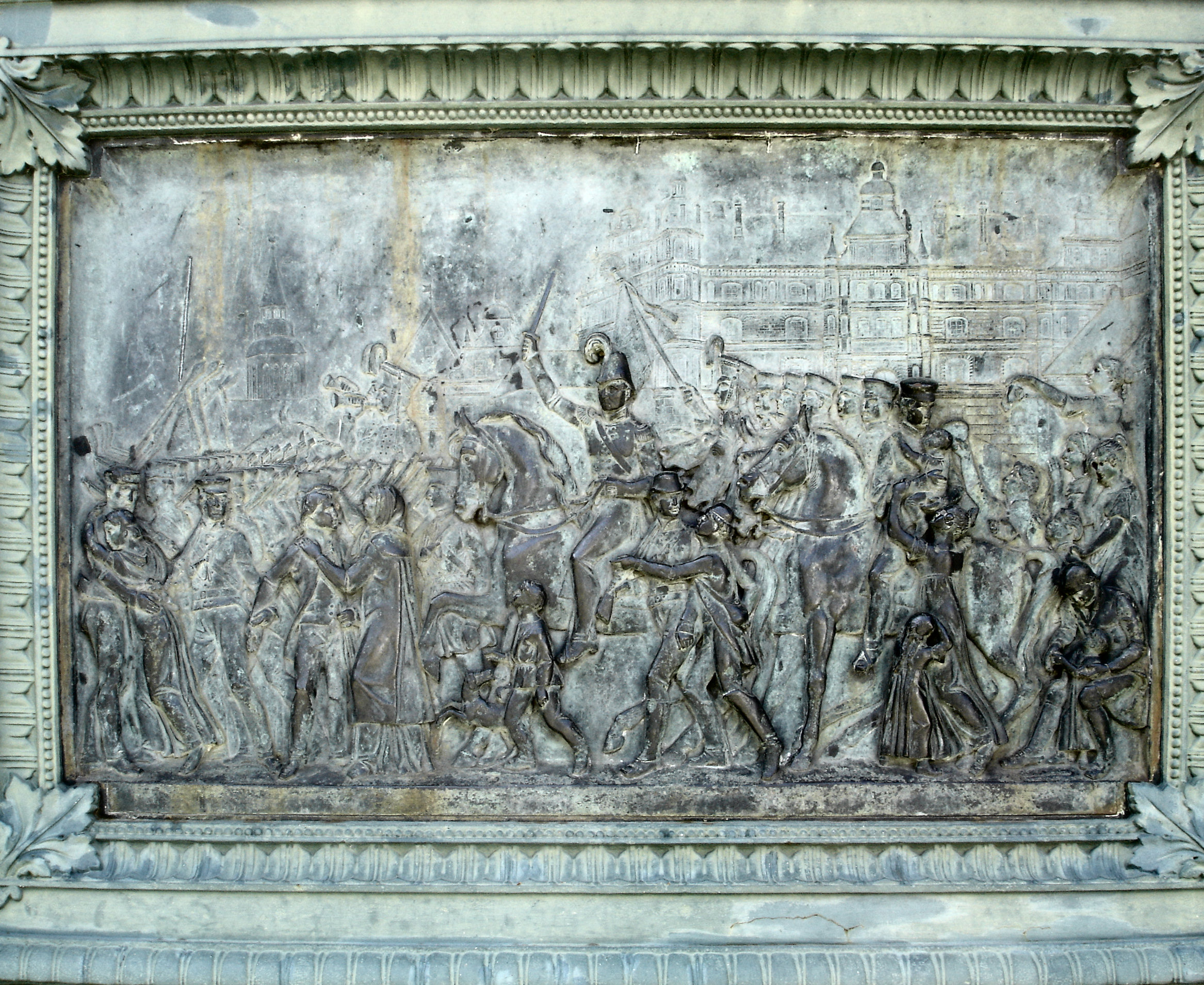 Detail of the Memorial Napoleonic War of Liberation 1813 in Güstrow, Mecklenburg-Vorpommern